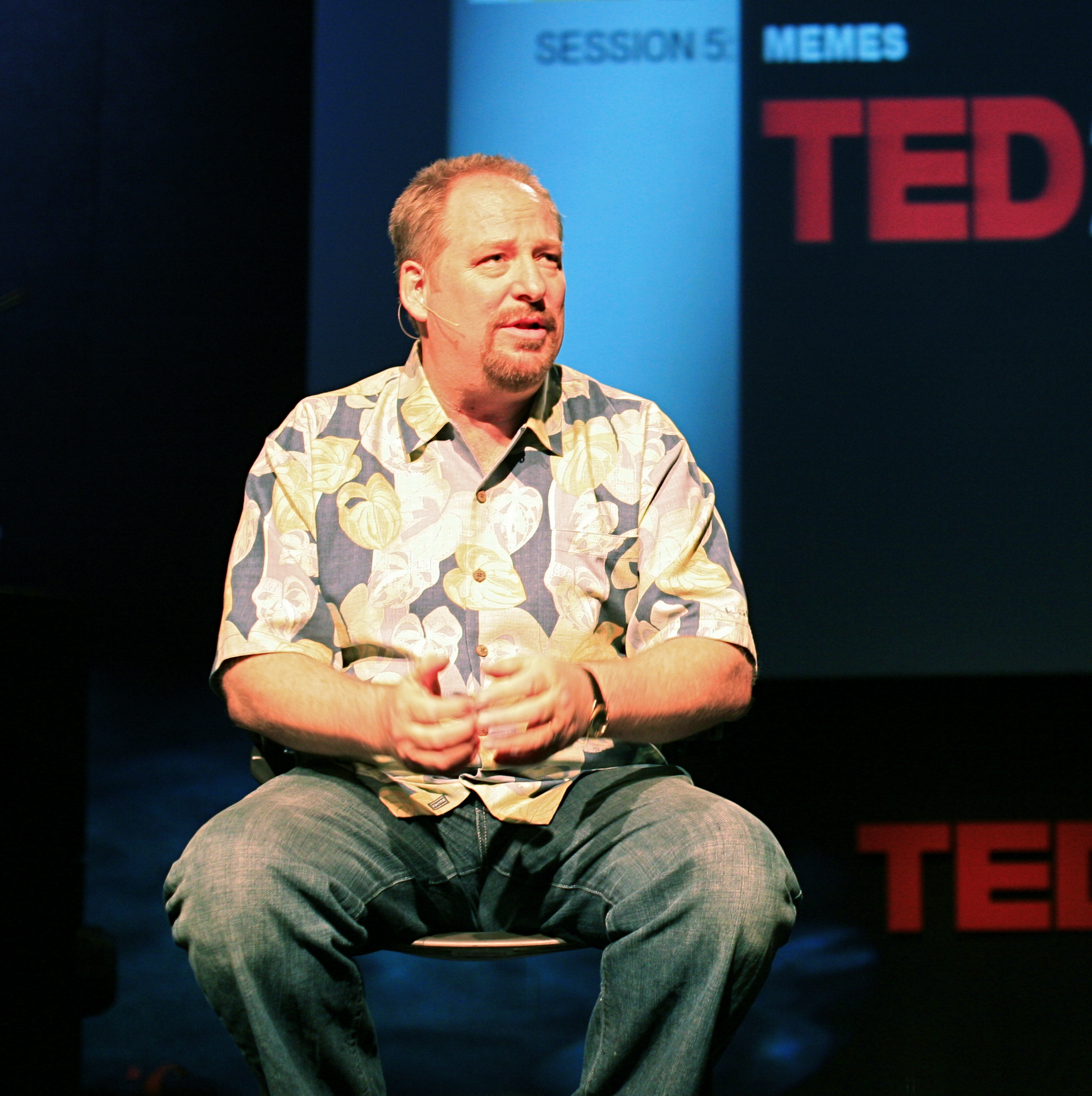 Rick Warren speaks at the 2006 TED conference.